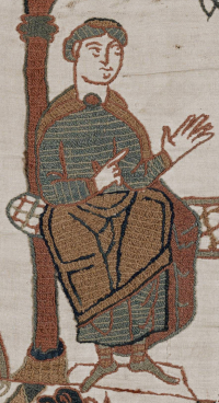 Odo of Bayeux